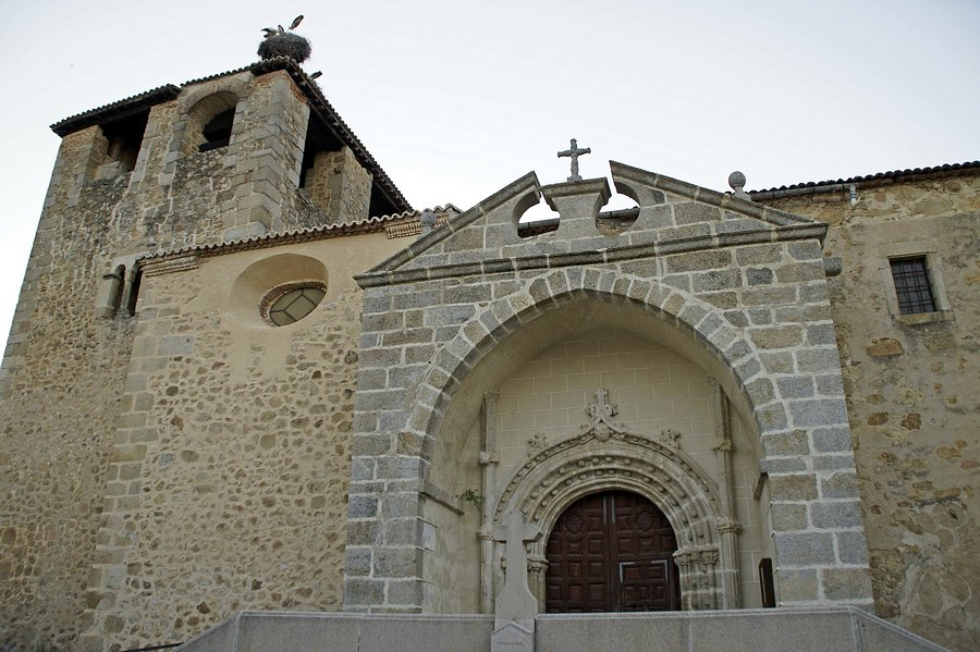 Iglesia de Cuacos e Yuste